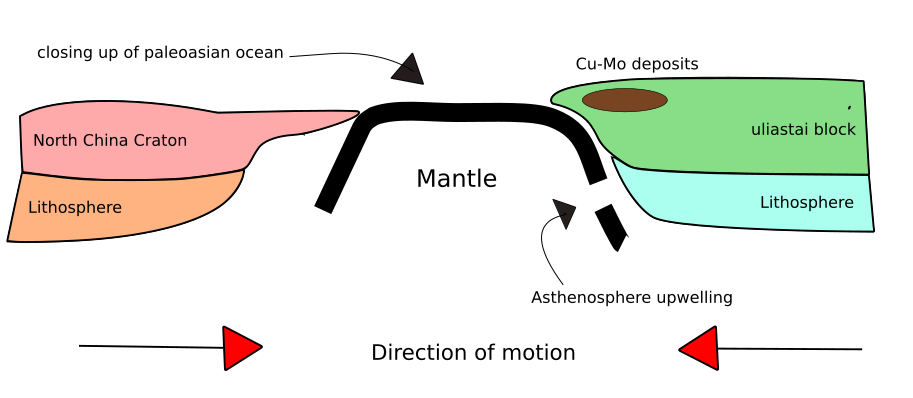 This picture describe the place of mineralization in this tectonic setting